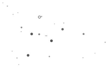 This is a star map of Cassiopeia with the star Mu Cassiopeiae circled.